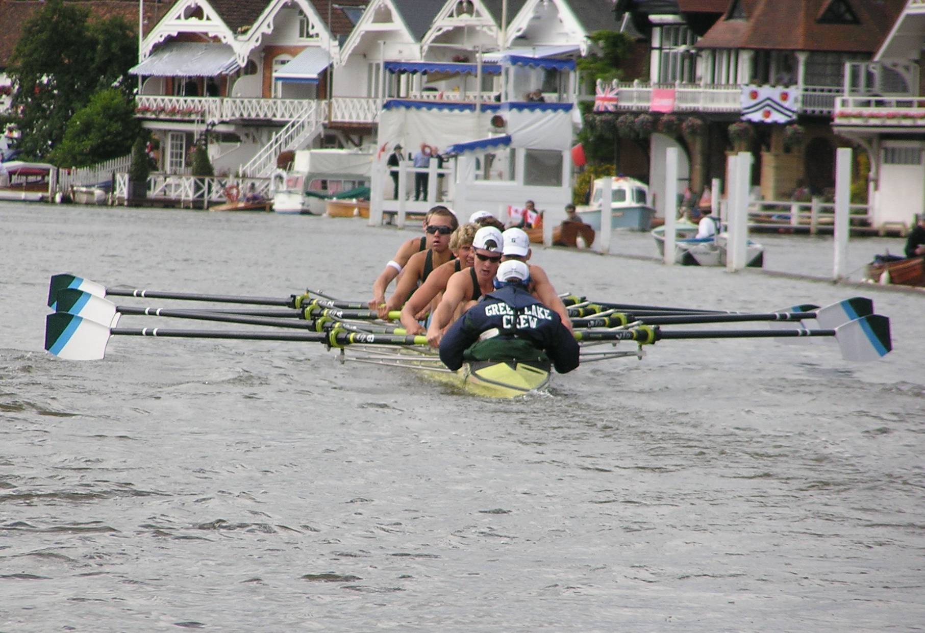 Green Lake Crew Junior Men's 8 racing at the 2007 Henley Royal Regatta